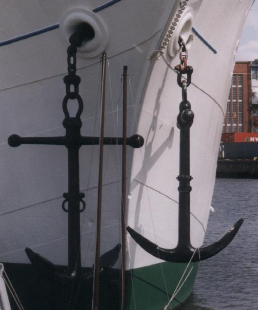 Anchors of the "Suomen Joutsen", Turku/Finland